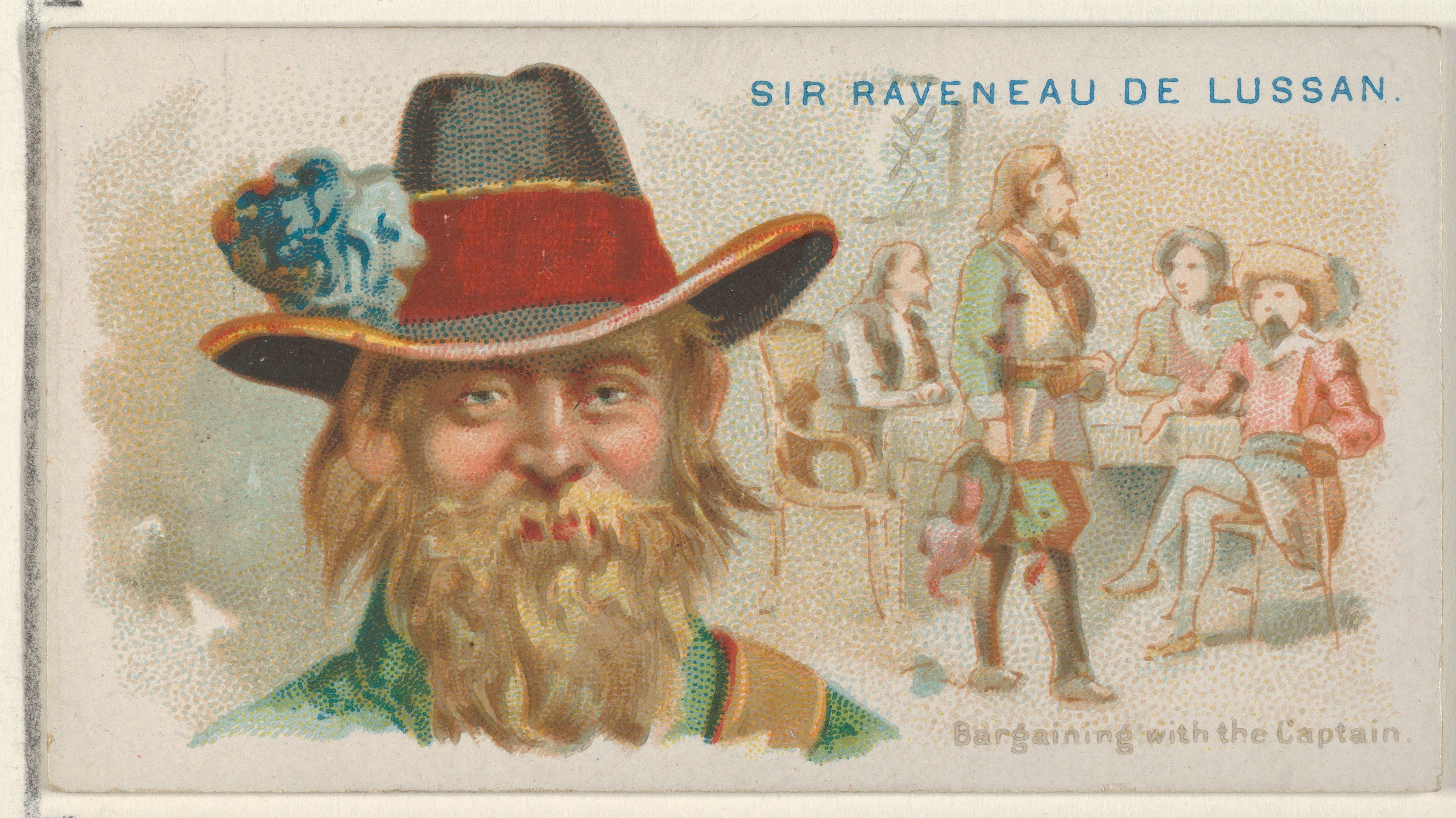 Print; Prints